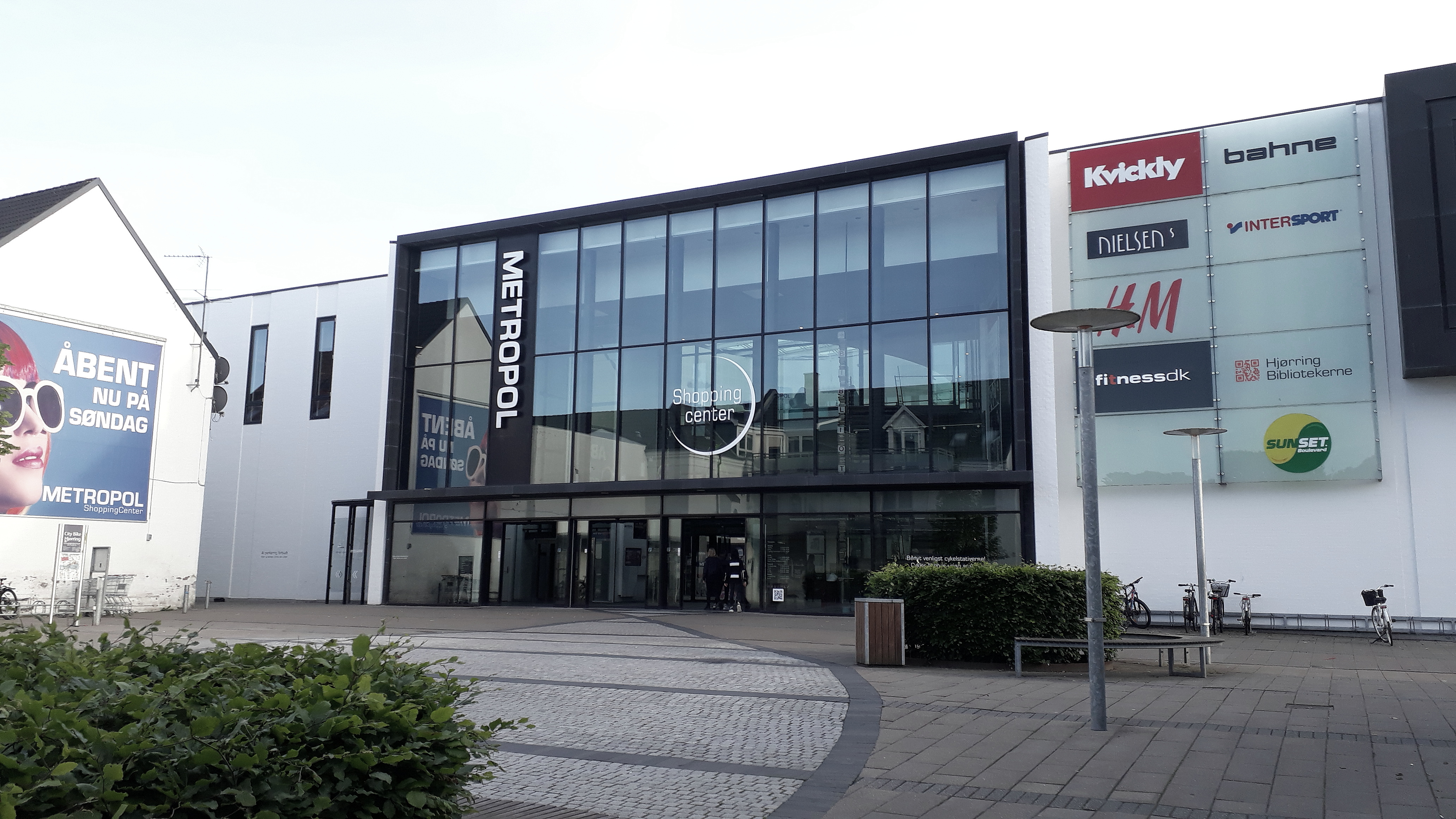 METROPOL Shopping Centre in Hjørring, Northern Denmark